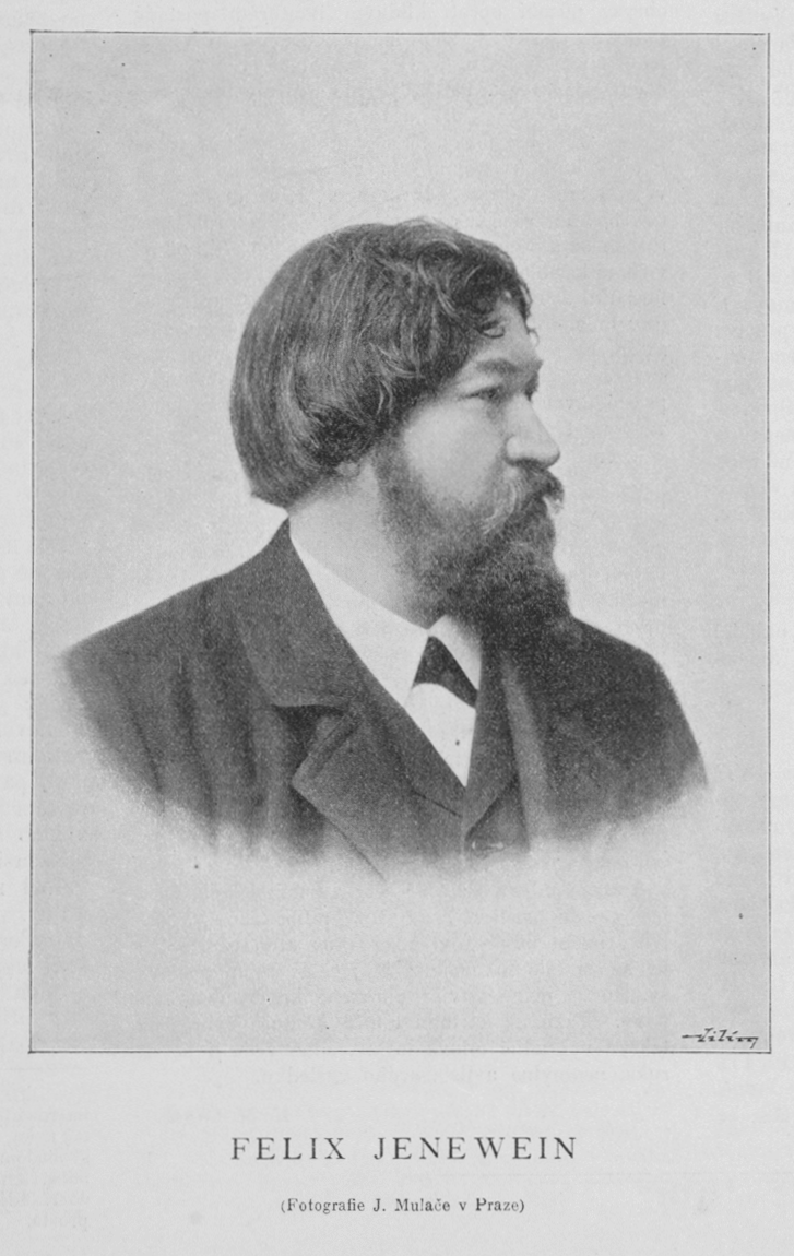 Portrait of Felix Jenewein (1857-1905), Czech painter.